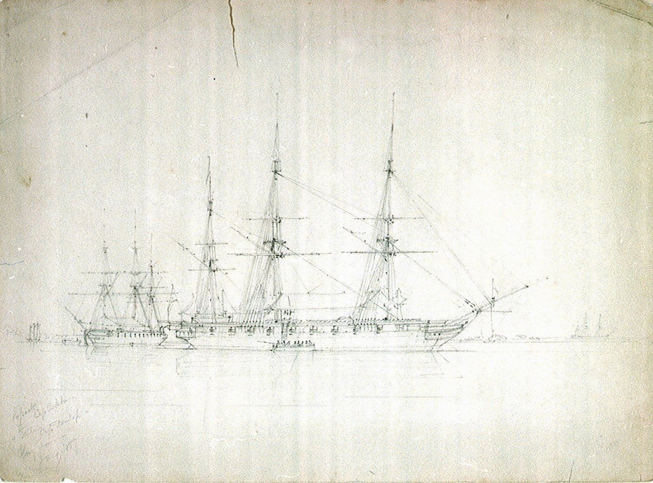 HMS 'Cossack' and 'Tartar', probably on the North American station, January 1857. Both these ships were being built for the Russians in 1854 by Pitcher of Northfleet, on the Thames, when they were confiscated and instead commissioned for the Navy as a consequence of the Crimean War. They are of the same design, both were wooden screw corvettes of 1296 tons, 195 x 39 ft, but have different armament. The 'Cossack' (ex-'Witjas) mounted twenty 8-inch guns: the 'Tartar' (ex-'Wojn') mounted two 110-pdrs, four 40-pdrs and fourteen 8-inch. They were launched within two days of each other on 15 and 17 May 1854 and were eventually broken up by Castle's at Charlton, also on the Thames, 'Tartar' in 1866 and 'Cossack' in 1875. Some of 'Cossack's' Baltic service is visually recorded in the Baltic album of Captain (late Admiral Sir) Edward Gennys Fanshawe who commanded her there in 1855-56 (PAI4673 and following).